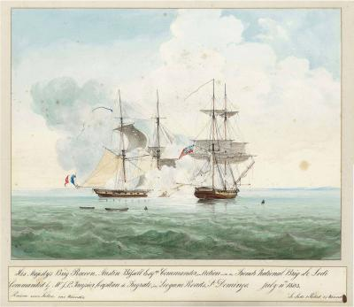 Capture of French brig Lodi by HMS Racoon, 1803 Pencil, pen and brown ink and watercolour heightened with white and with scratching out, on paper 13¾ x 18 in. (34.9 x 45.8 cm.)